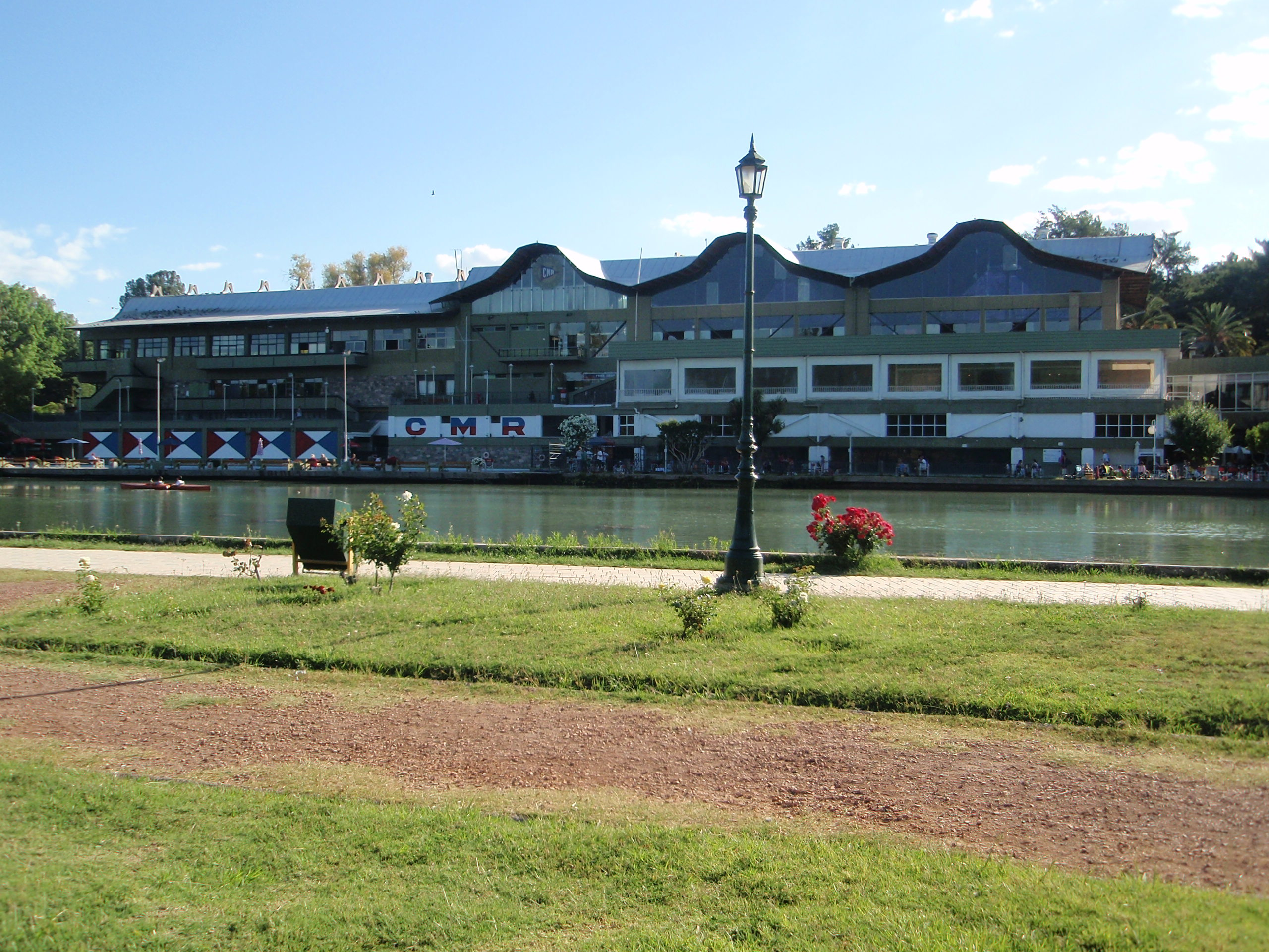 Picture taken from the Rose Garden at General San Martín Park.